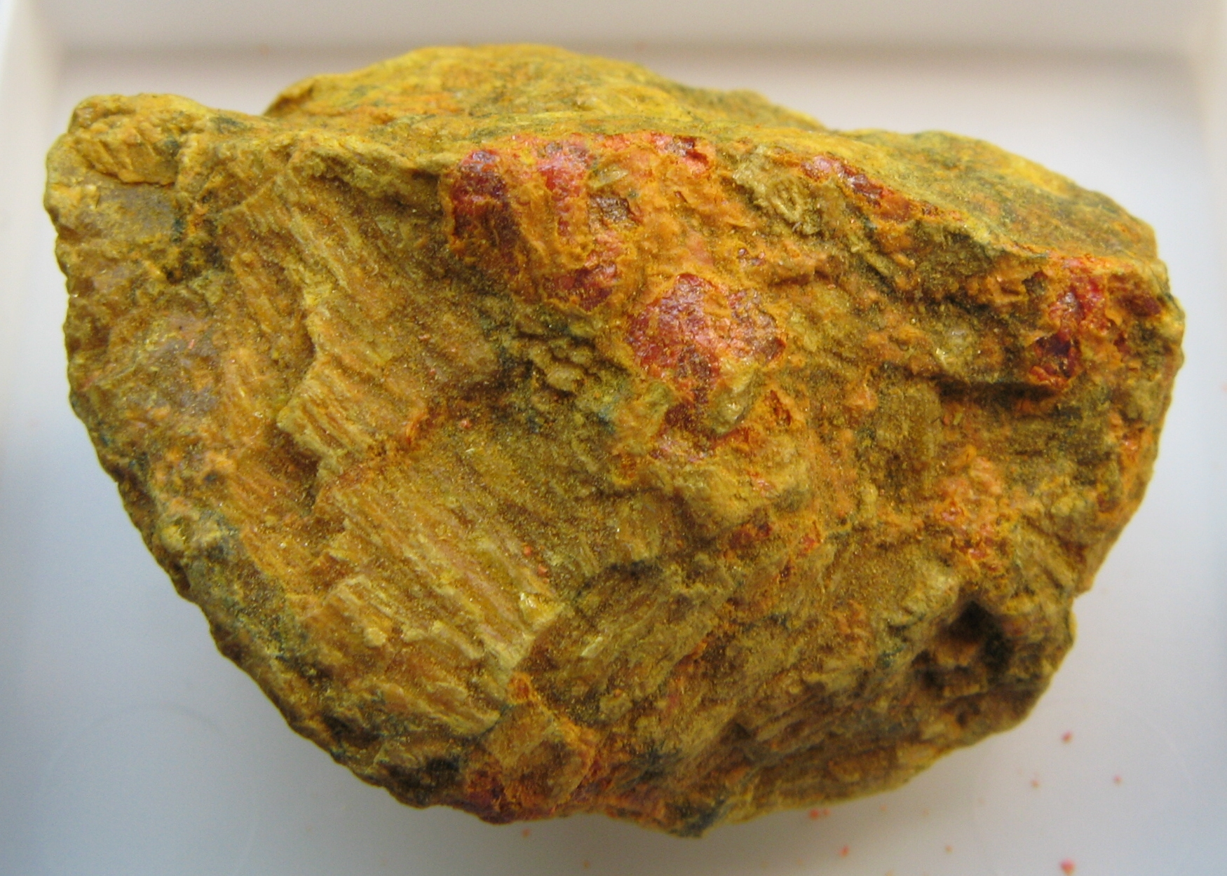 Orpiment (yellow) with a rest of Realgar (red)